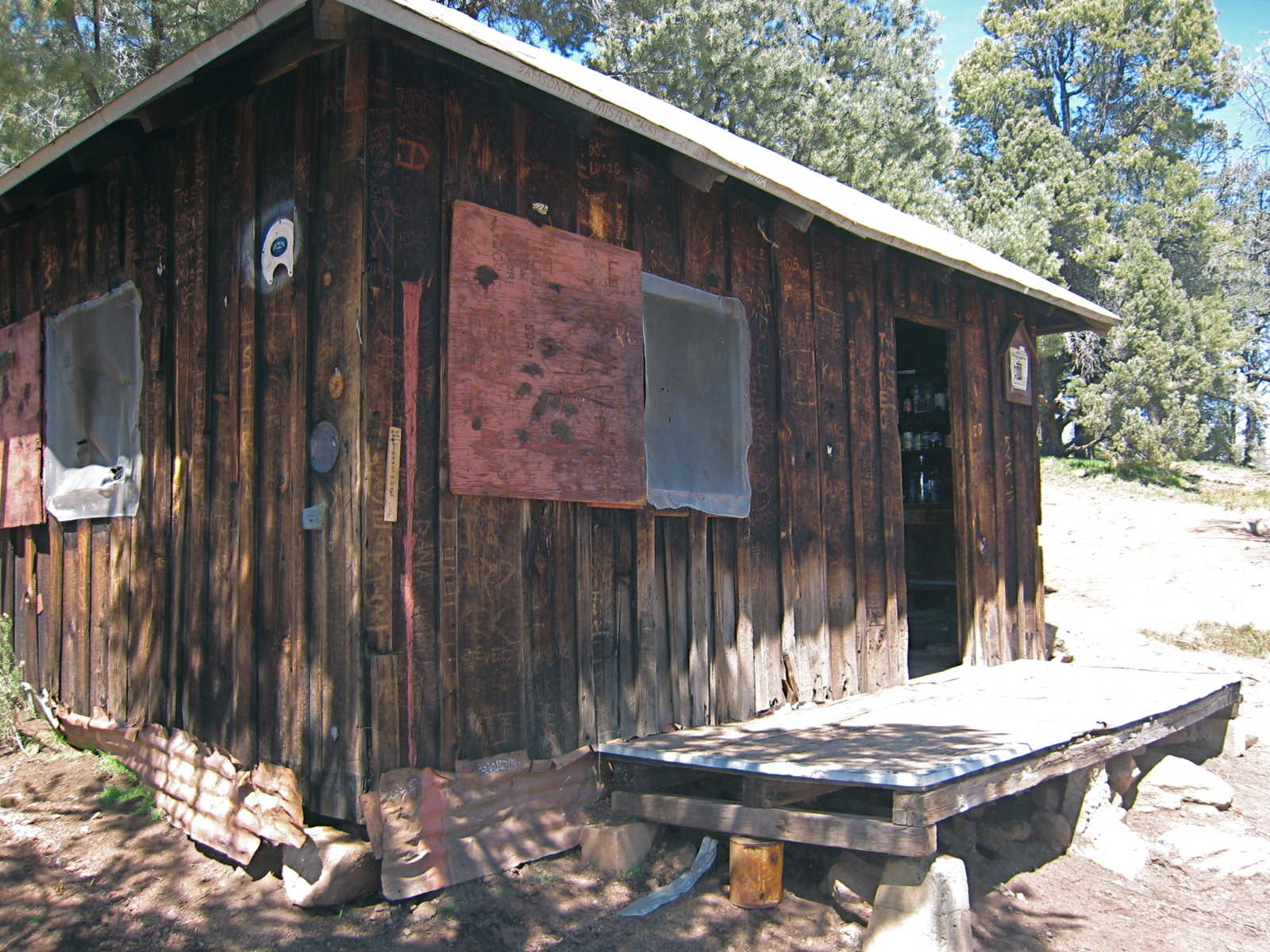 This is a photograph of the cabin moved to this location by Murdo George McIver in 1938.